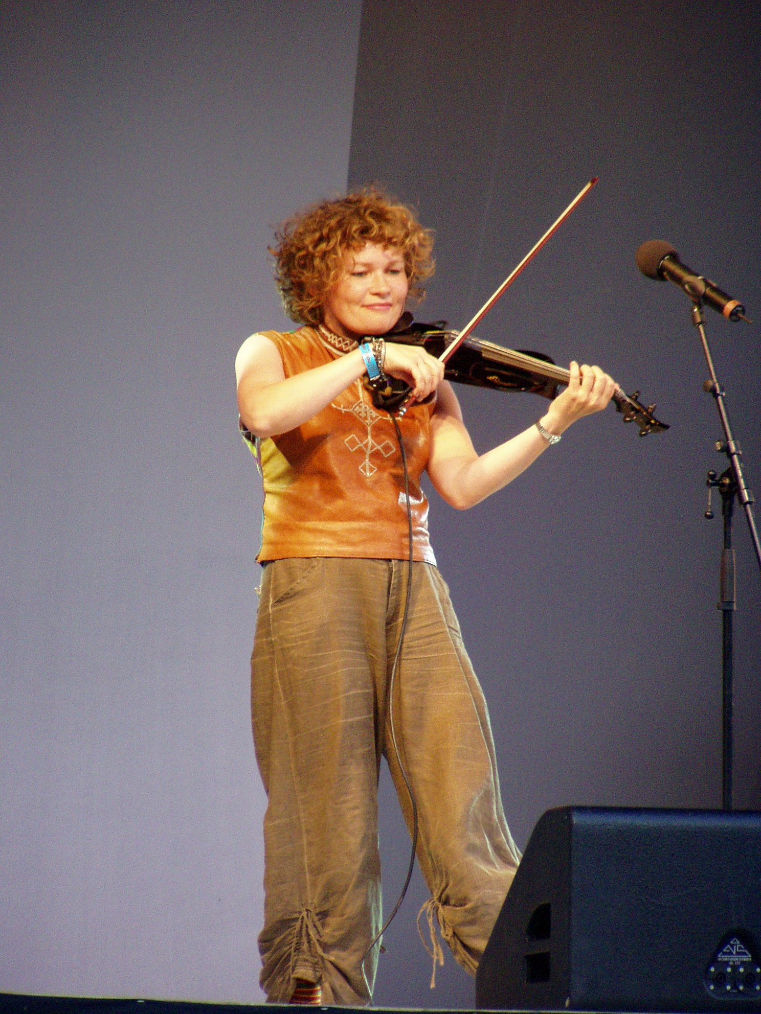 Kristin Mellem from Vajas on Festival of Riddu Riđđu of natural cultures in Norway, 2007